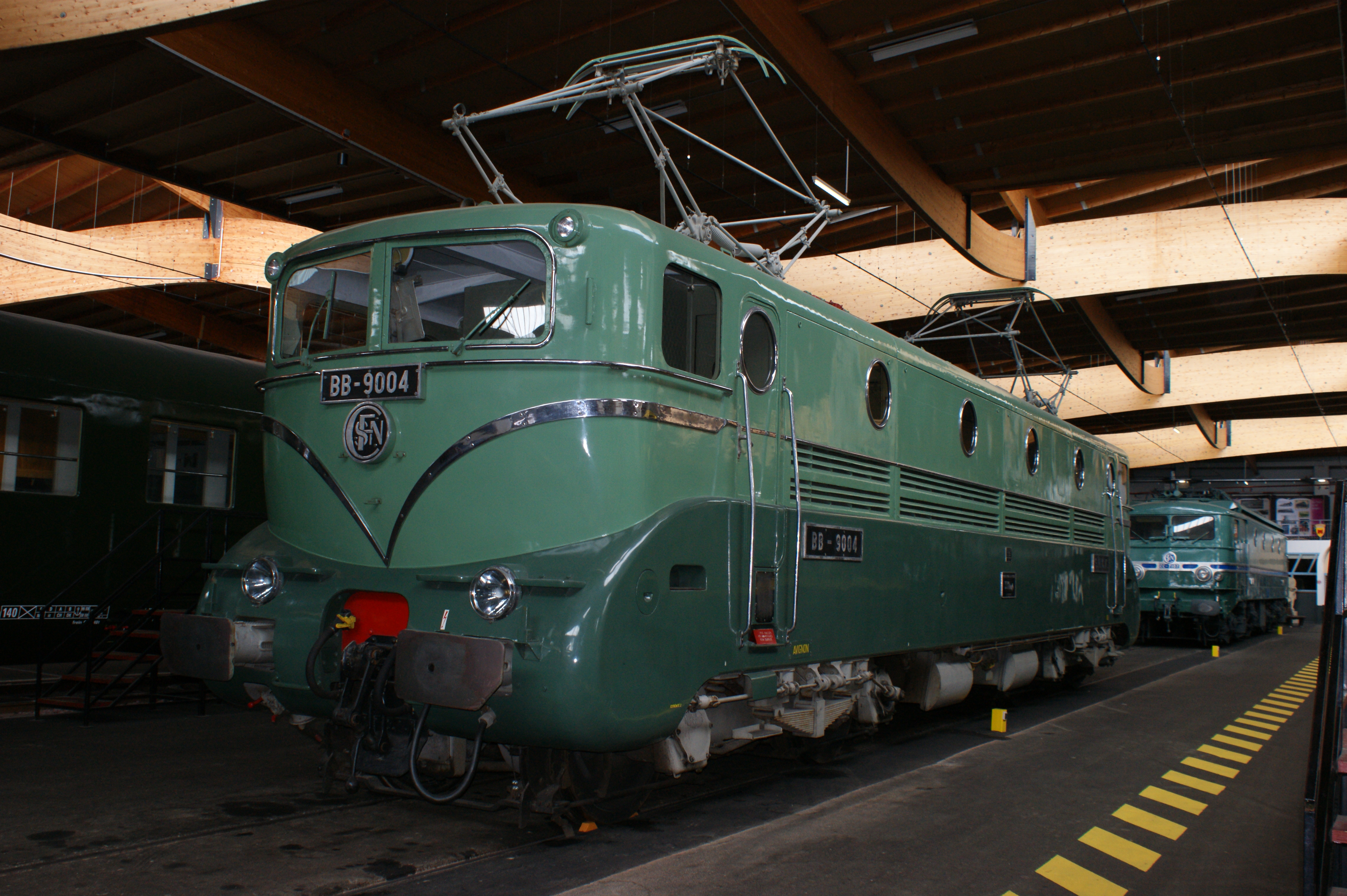 SNCF Le Creusot BB 9000 Class 1,500V dc overhead, 4,350 hp Bo-Bo No.BB 9004 of 1954 at the French Railway Museum, Mulhouse, 3/09. Joint World Speed Record holder with CC 7107 of 205.7 mph in 1955.